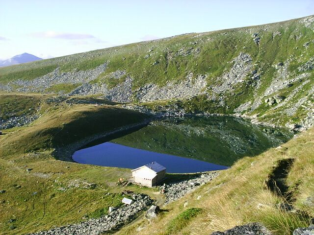 Golemo Lake in the Baba Mountains in the Republic of Macedonia